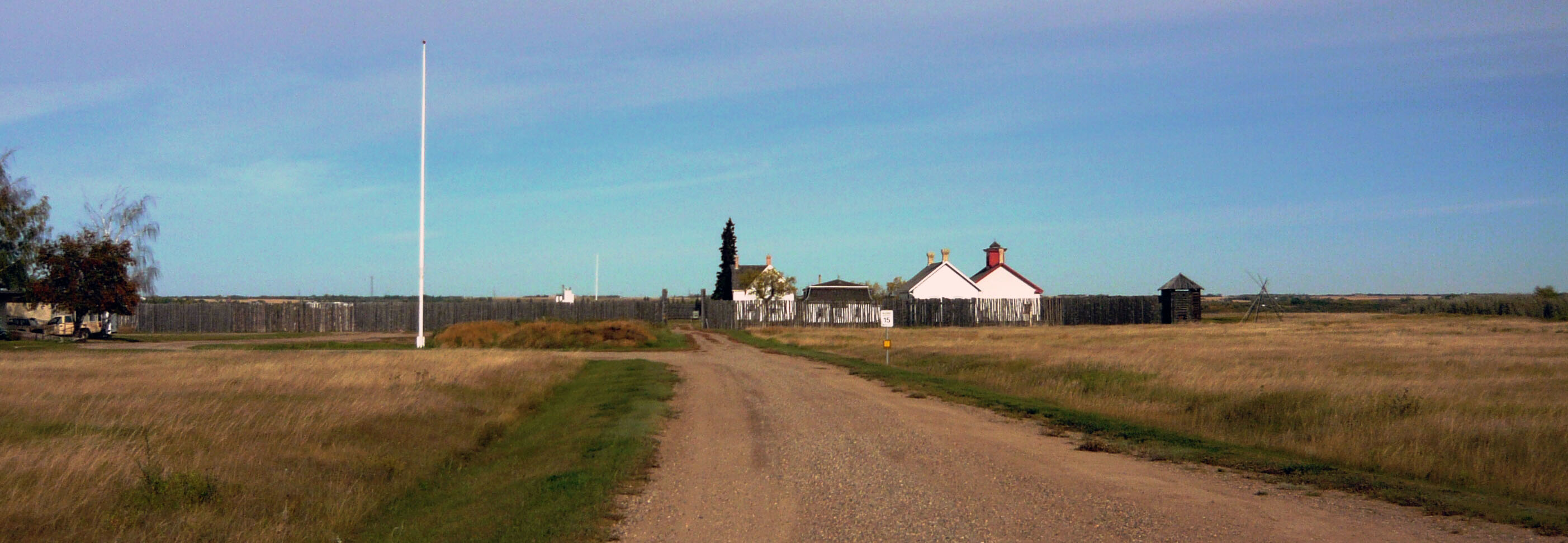 Fort Battleford National Historic Site, near Battleford, Saskatchewan, Canada. Looking northeastward from park gate on Central Avenue.